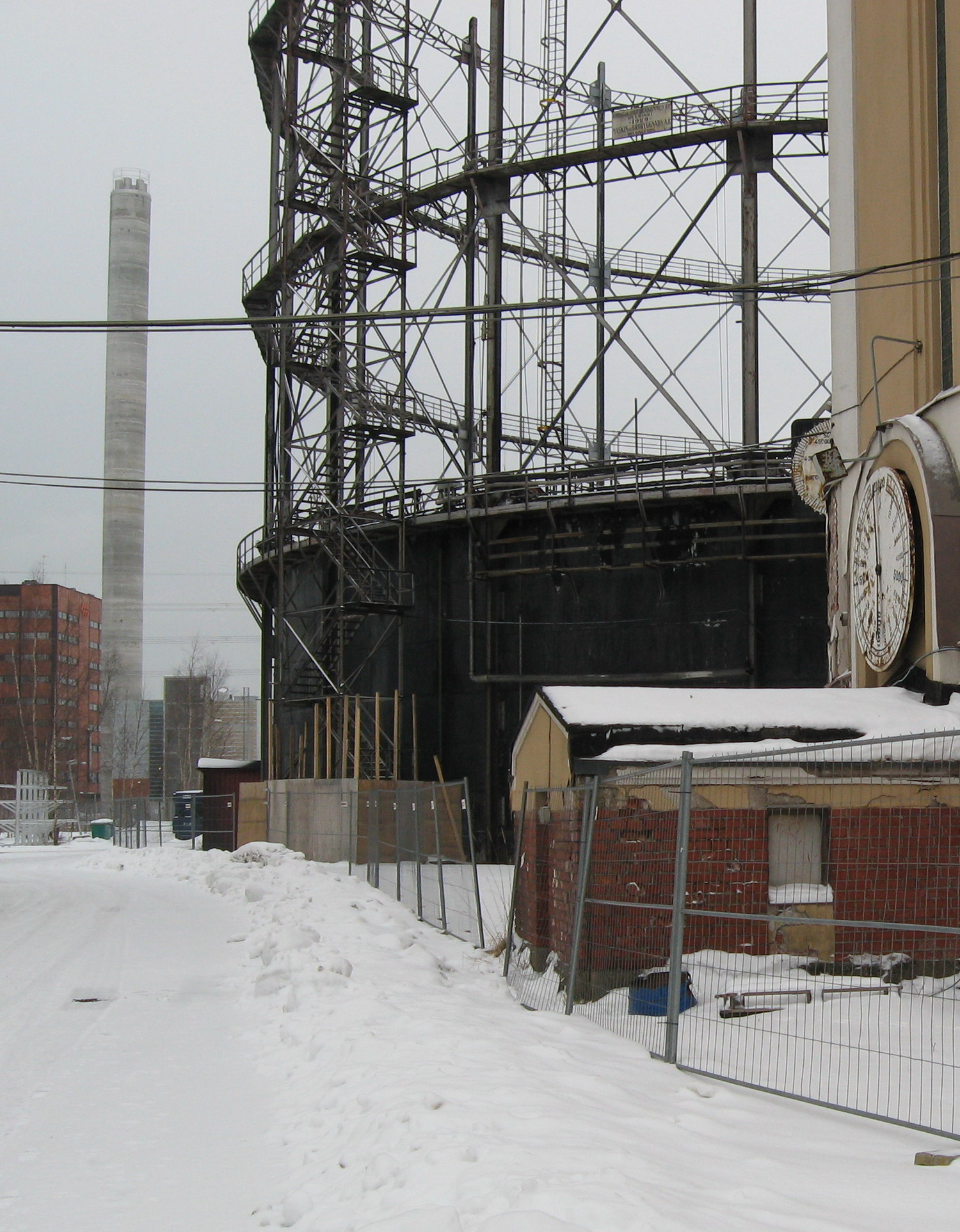 Old gas holder in Sörnäinen, Helsinki, Finland. Completed in 1929, out of use since 1980's.